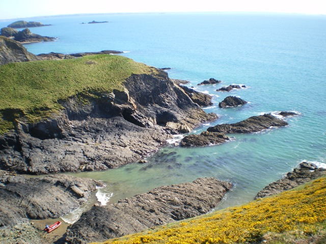 Porth y Rhaw from the west Porth y Rhaw cove from the coastpath above it - not the natural harbour that some of the others around here are, but a reasonable shelter nonetheless.